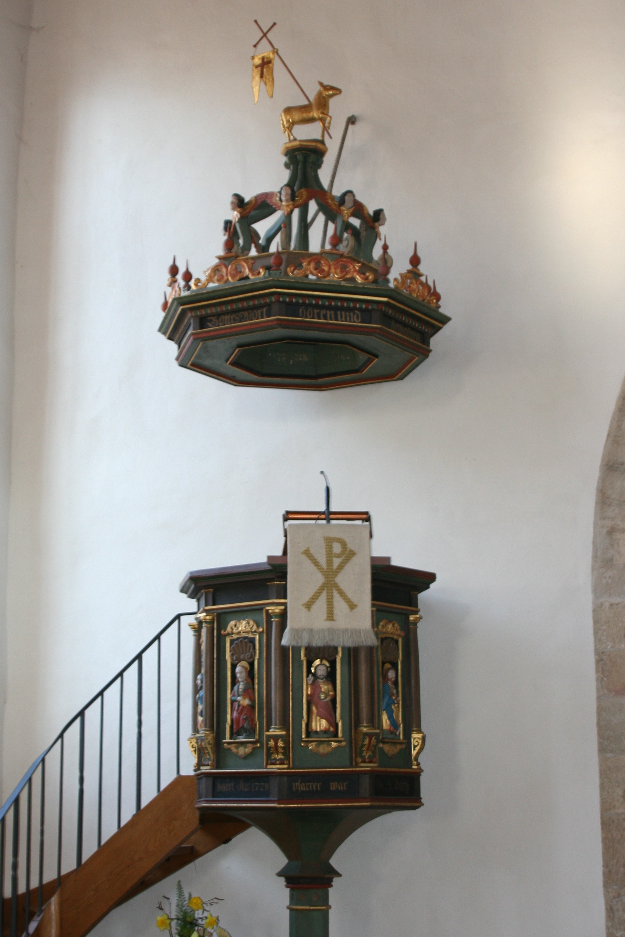 The protestant Ulrich church in Eberstadt. Pulpit from 1728